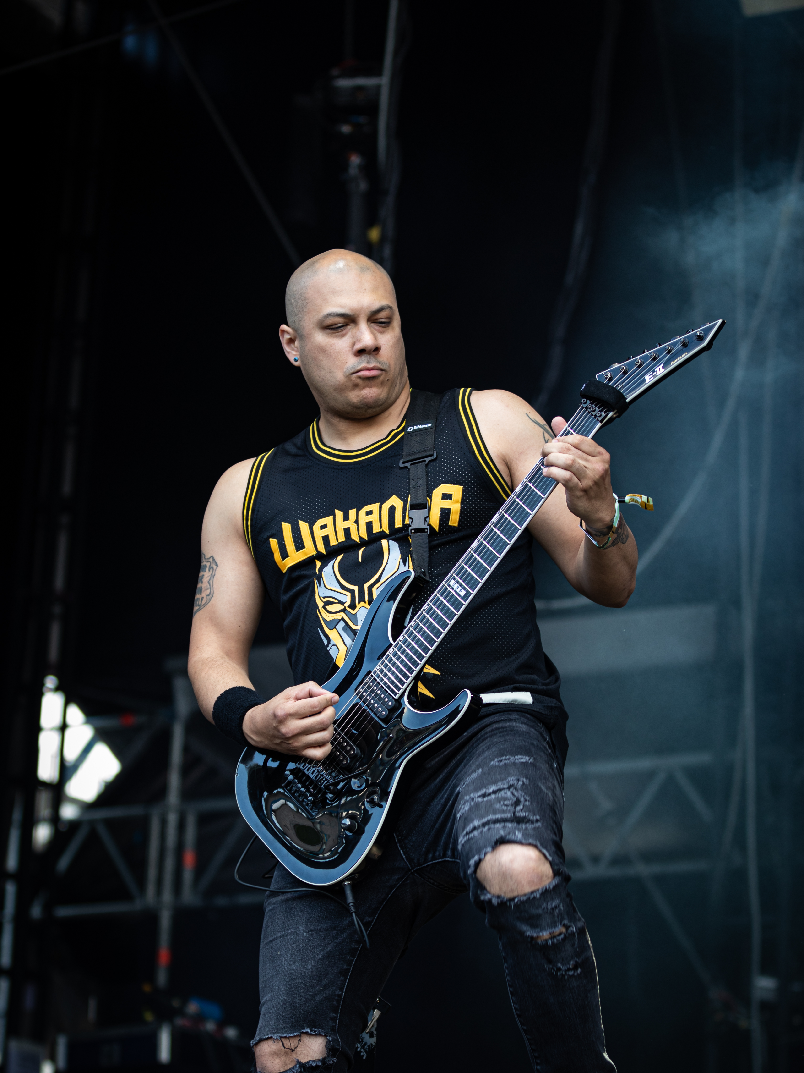 Bad Wolves - Rock am Ring 2019